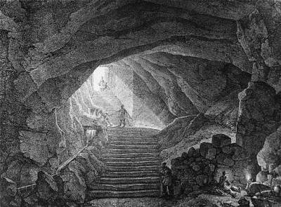 View of the " carrière des Montalets " (or Montalet or Montalais )